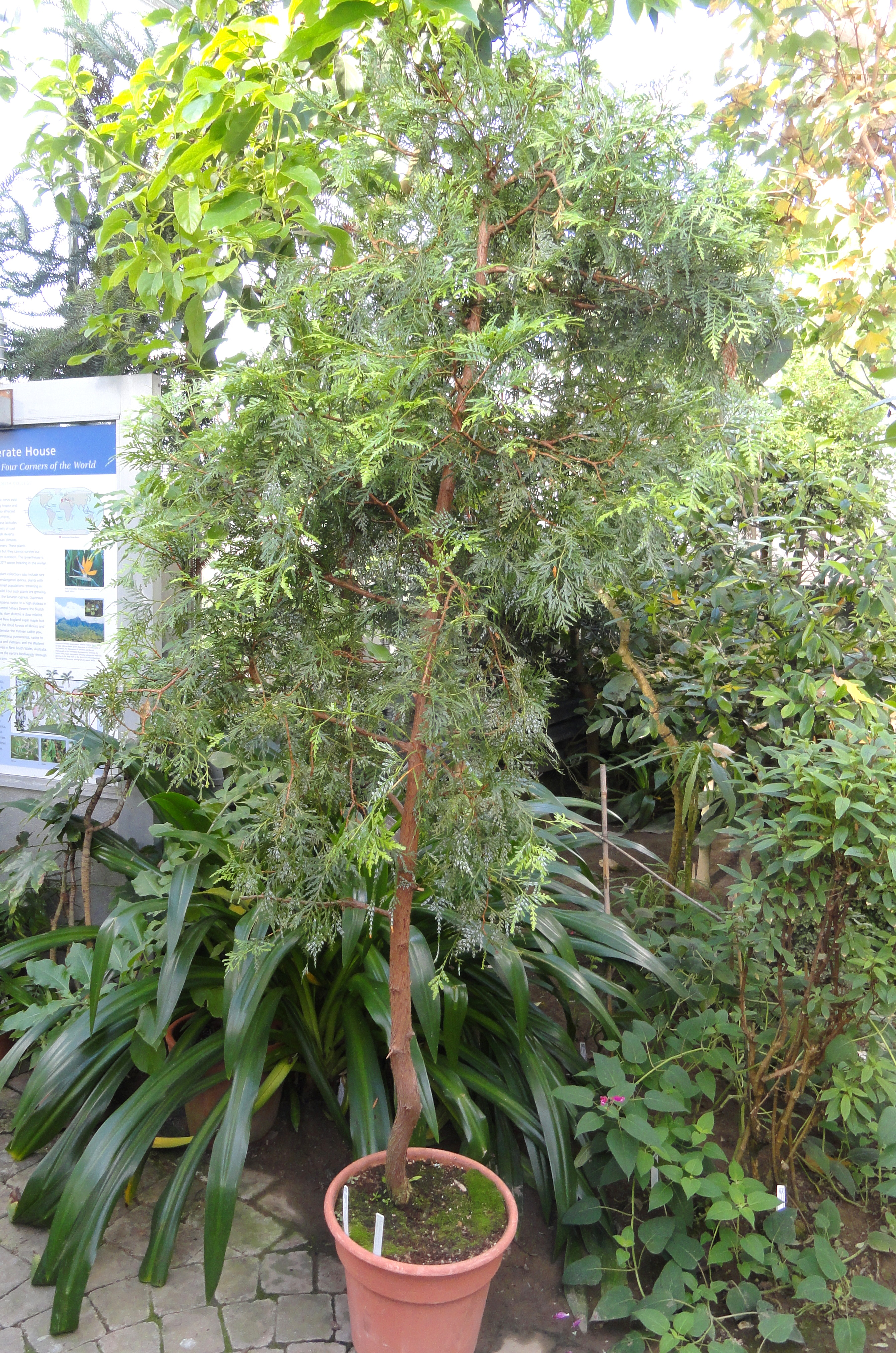 Botanical specimen in the Lyman Plant House, Smith College, Northampton, Massachusetts, USA.